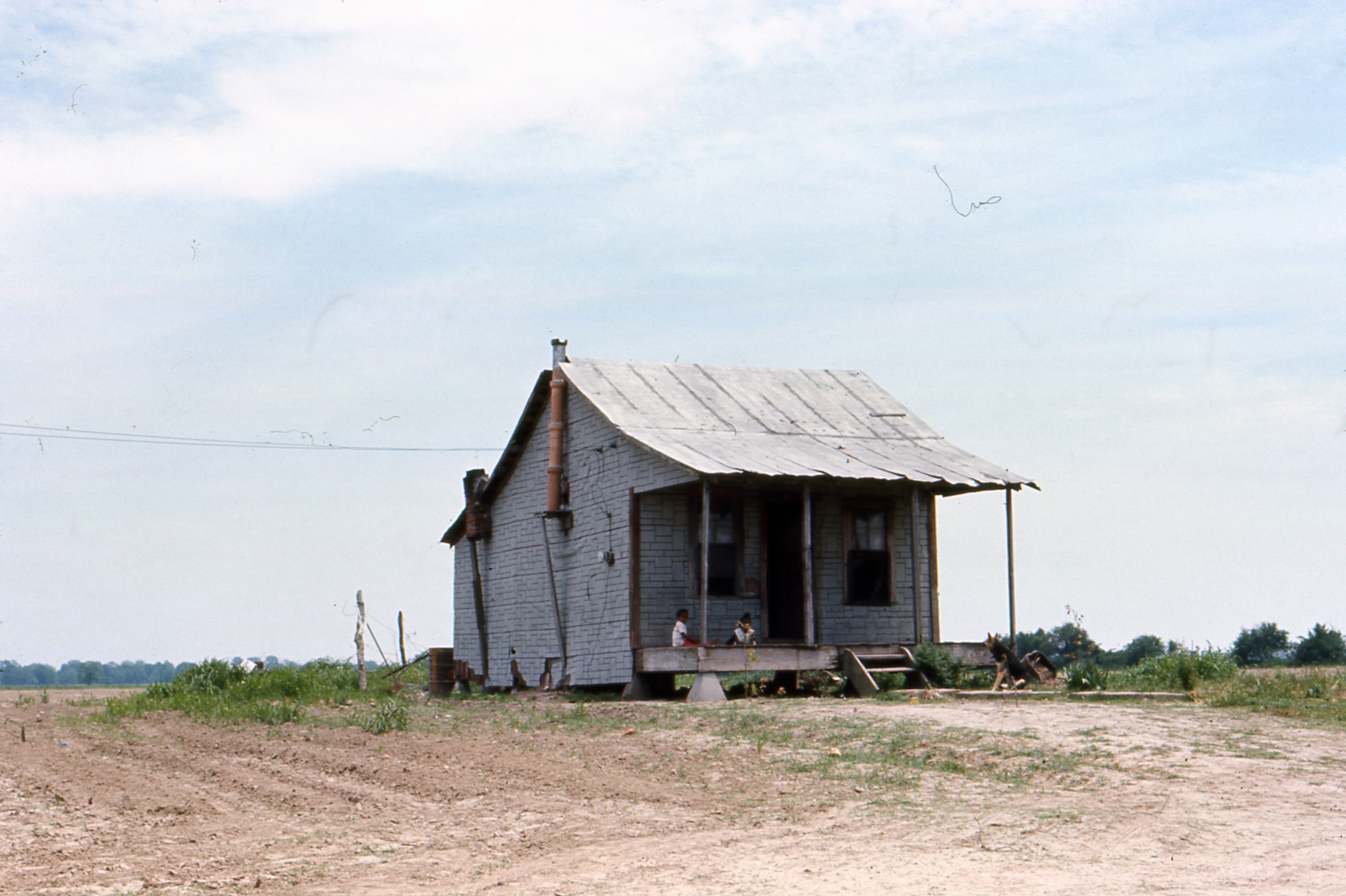 Rural house near Greenville, Mississippi. Circa 1966.